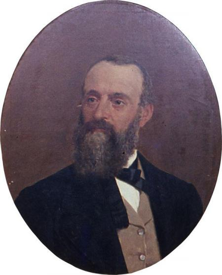 Giovanni Antonio Sanna (Sassari, 29th august 1819 – Rome, 9th february 1875) was an italian entrepreneur and politician.